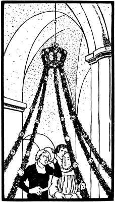 Illustration by Otto Ubbelohde to the fairy tale Foundling-Bird